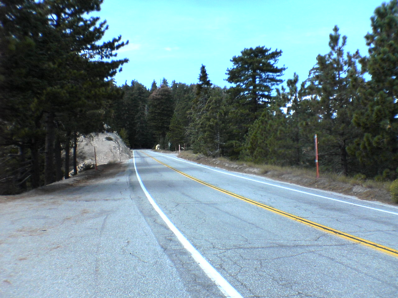 The Angeles Crest Highway that runs through the Angeles National Forest. Camera used was a Sony Ericsson S710a.